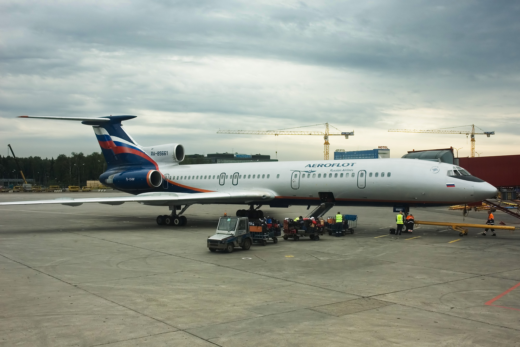 Aeroflot Tu-154M at Sheremet'evo airport